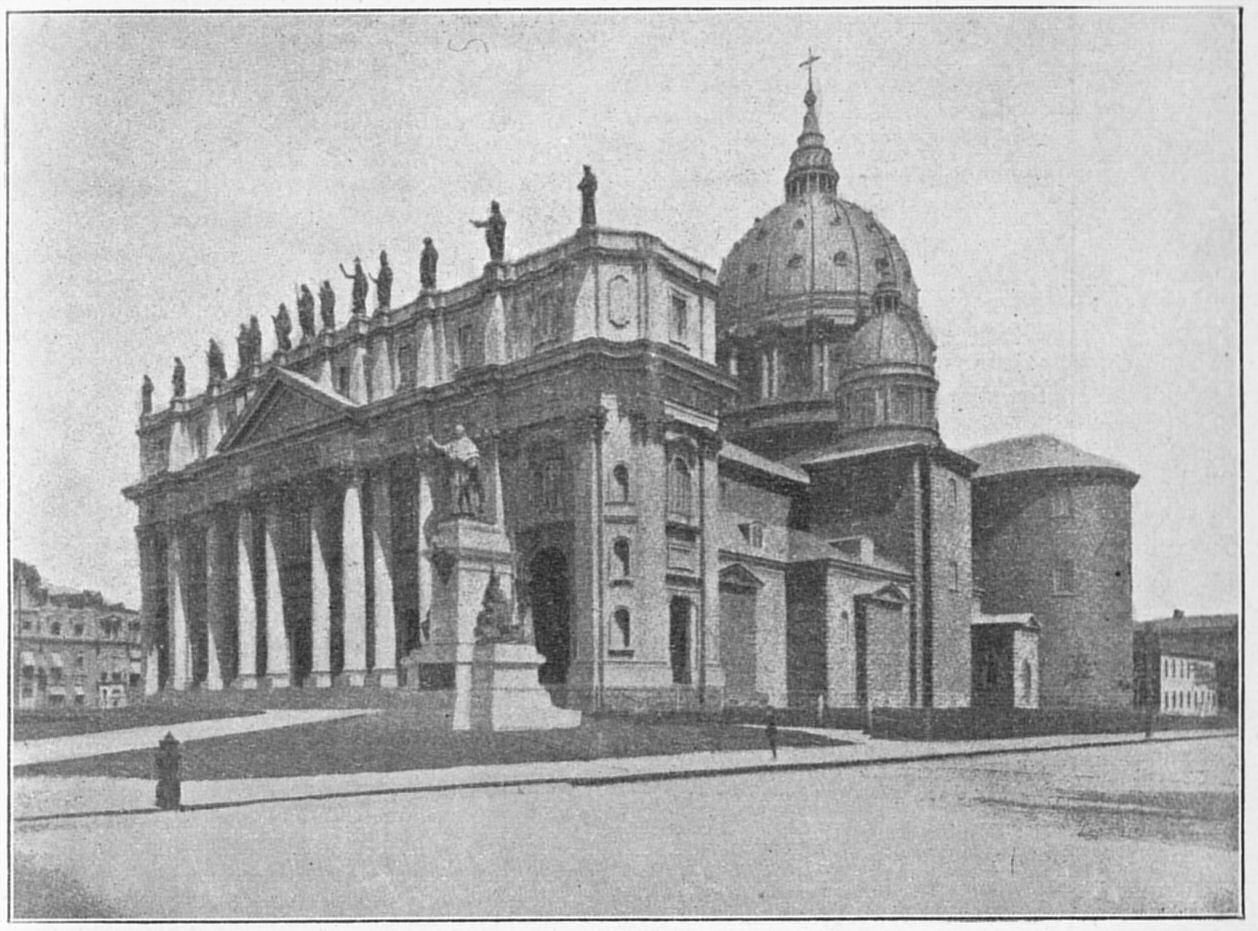 St James Cathedral, Montreal (rededicated in 1955 to Mary, Queen of the World).